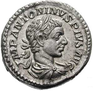 Elagabalus Denarius. IMP ANTONINVS PIVS AVG, laureate and draped bust right / FORTVNAE AVG, Fortuna standing left holding cornucopiae & rudder on globe. RSC 48a.